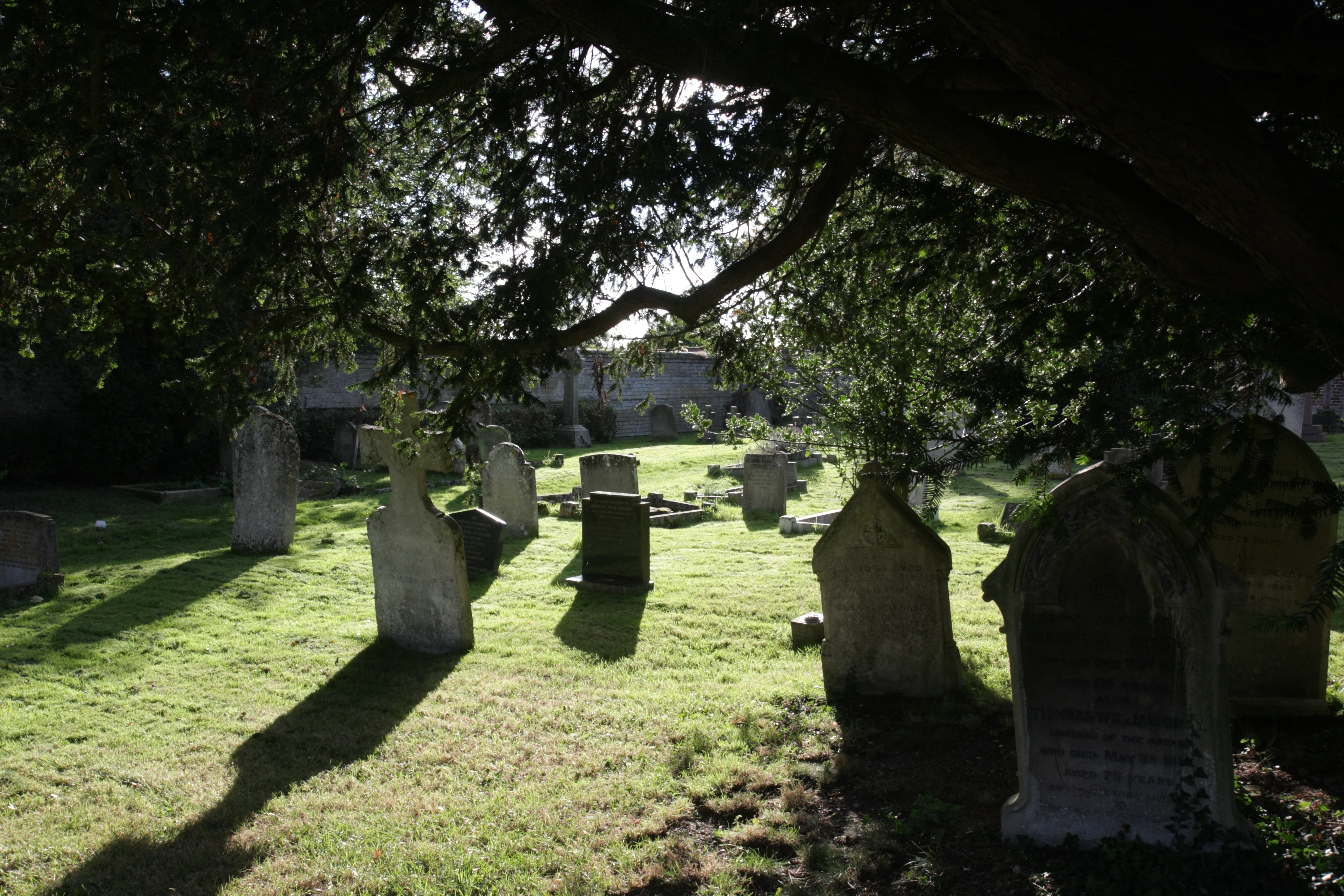 Gravestones at Saints Andrew and Mary Church, Grantchester, Cambridgeshire, England